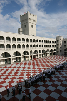 Source: User:CocoaBeachBoy - own work